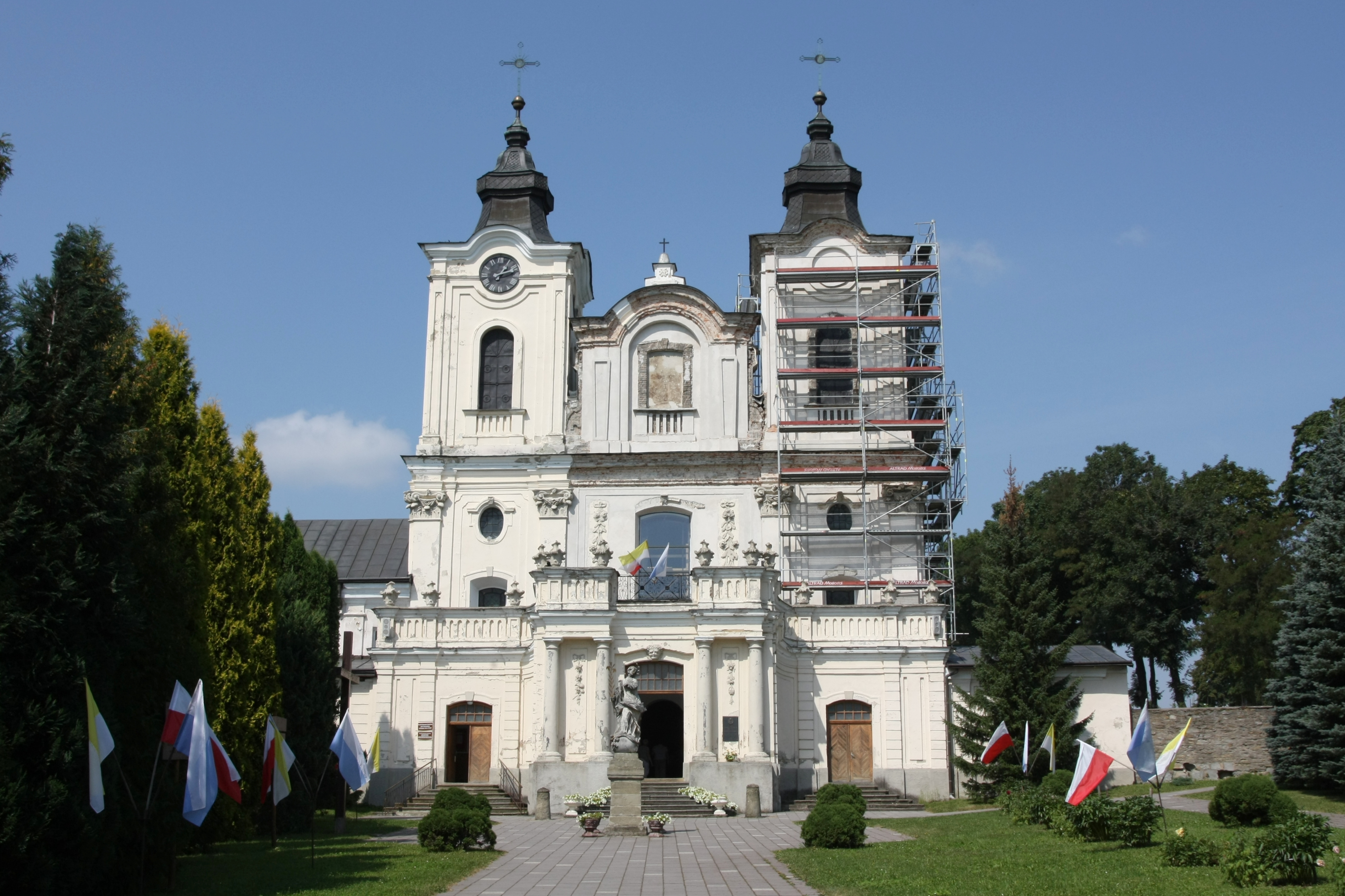 Bernardine Friars church in Dukla.